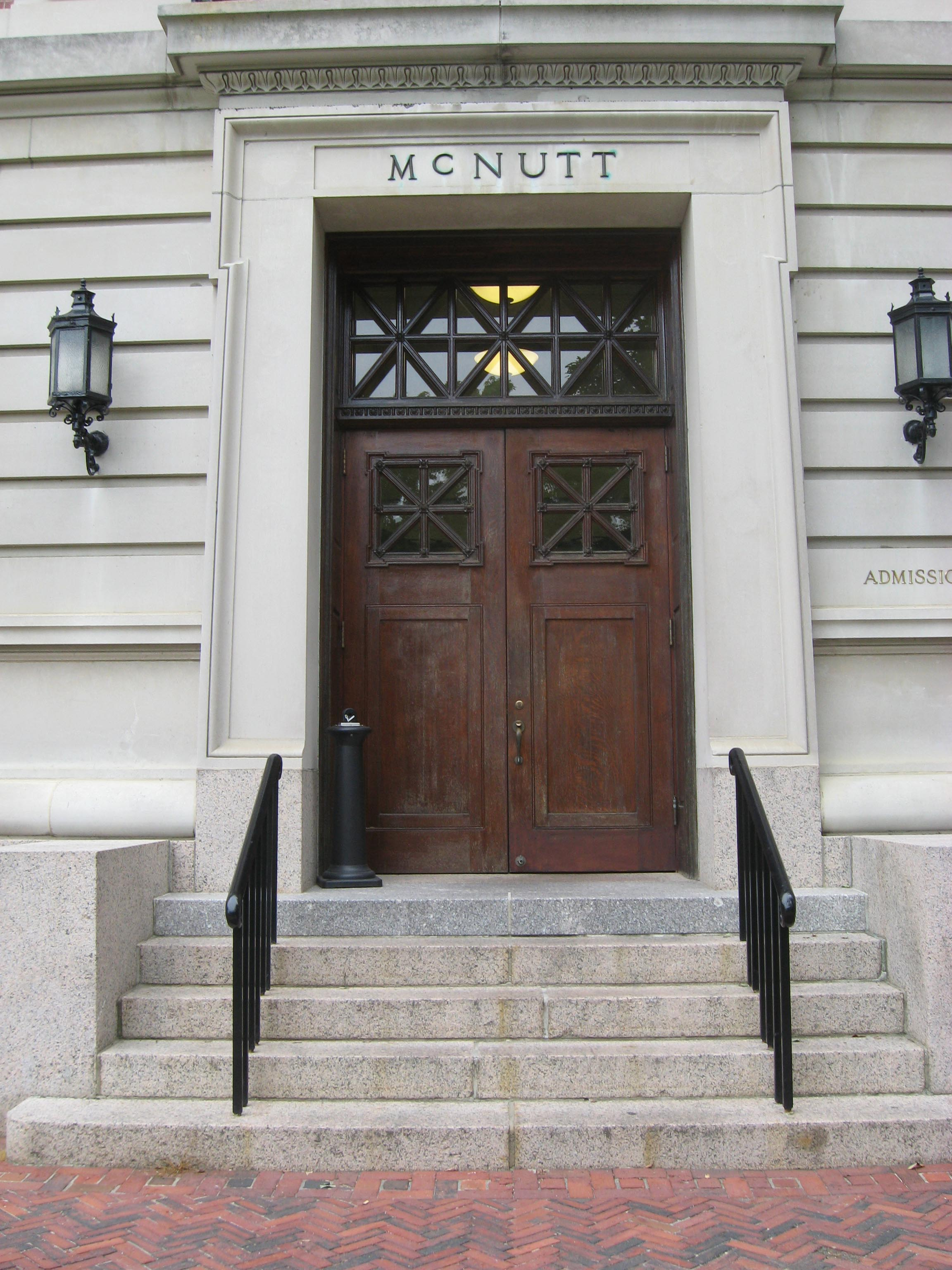 Outside of McNutt Hall, location of first demonstration of a time-sharing computer. Plaque commemorating the event and recognizing George Stibitz is located in the immediate entryway, on the left.